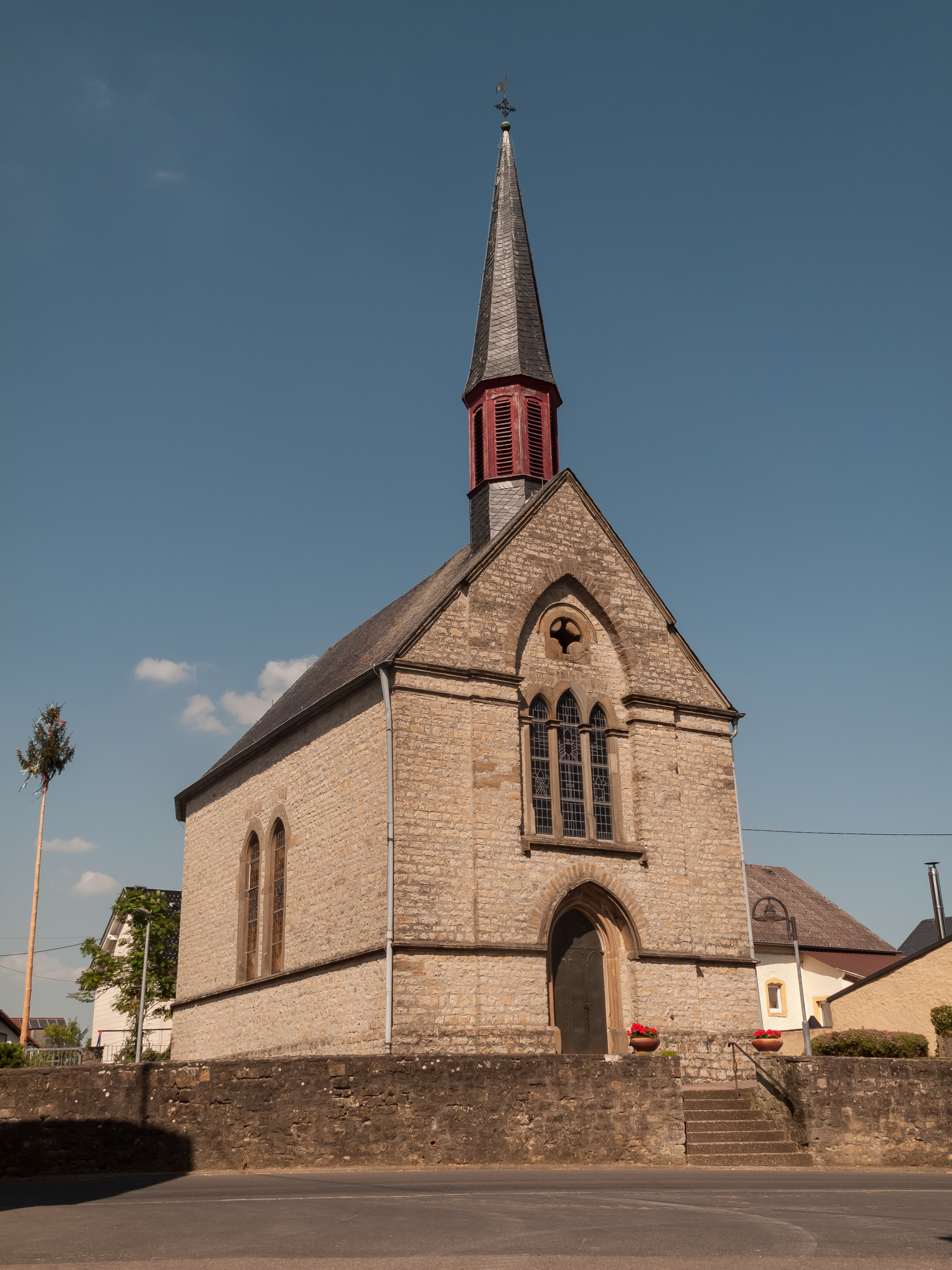 Kaschenbach, church: die Filialkirche Sankt Michael